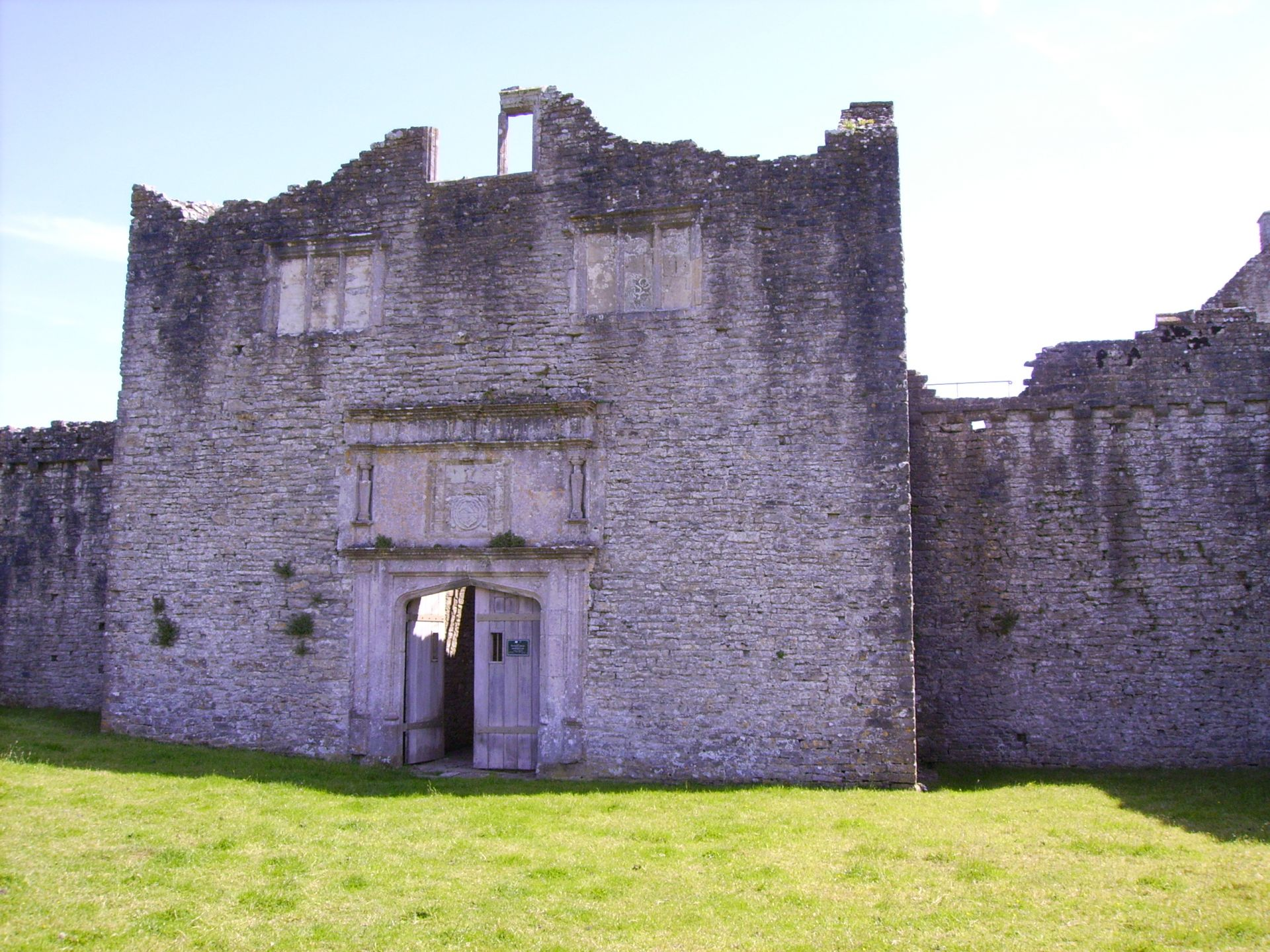 Old Beaupre Castle - Gatehouse exterior